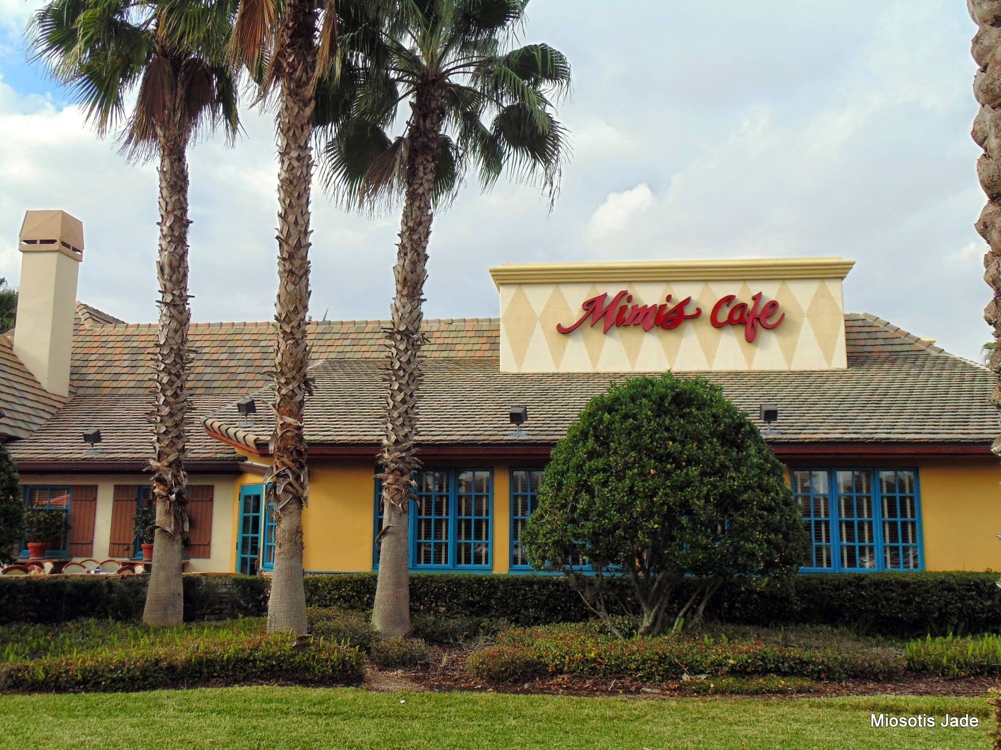 Restaurant at the Millenia Mall, Orlando, Fl